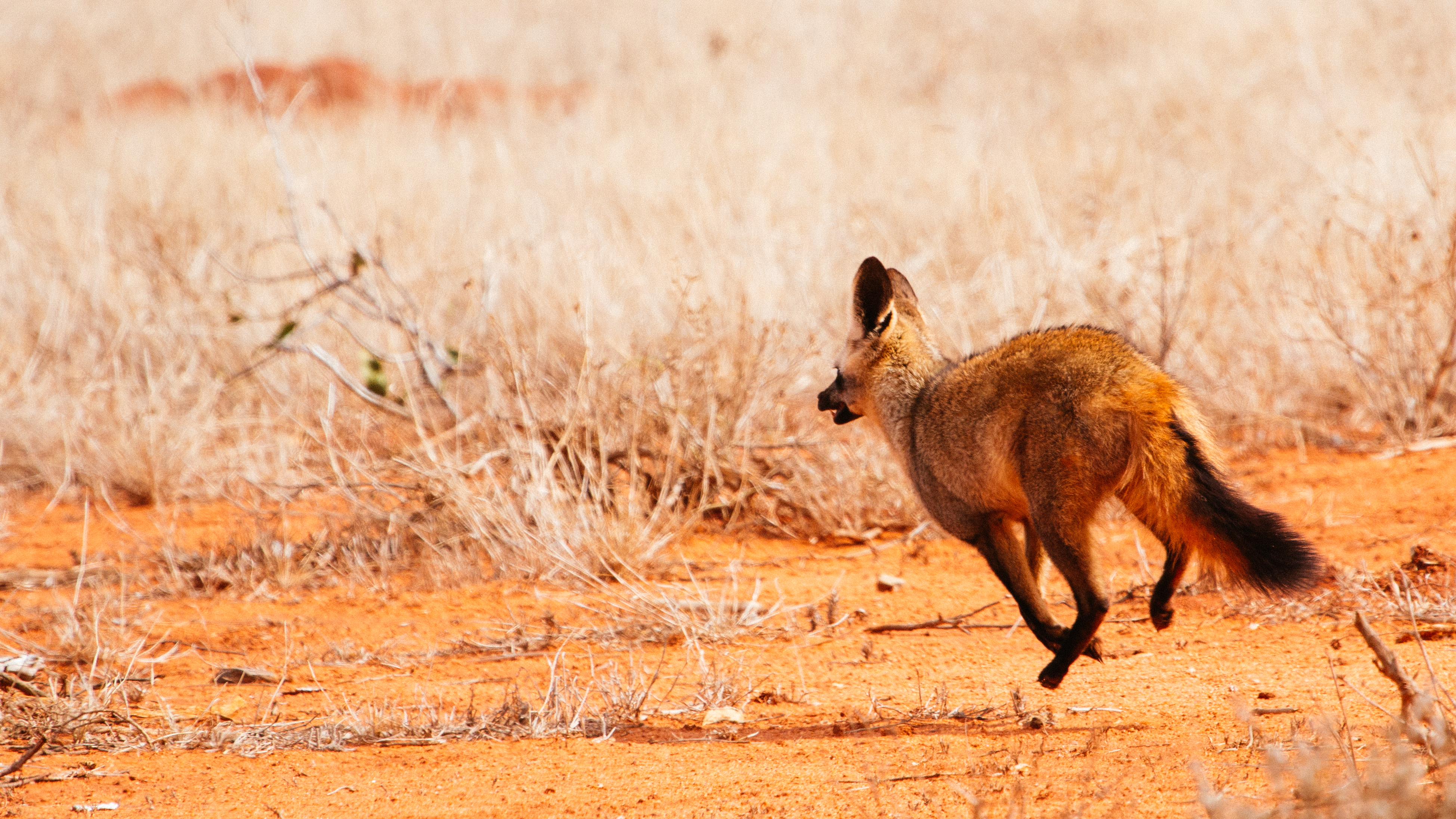 This small, nocturnal animal was hanging out in the late morning next to an old termite hill that he had taken up as his shelter.